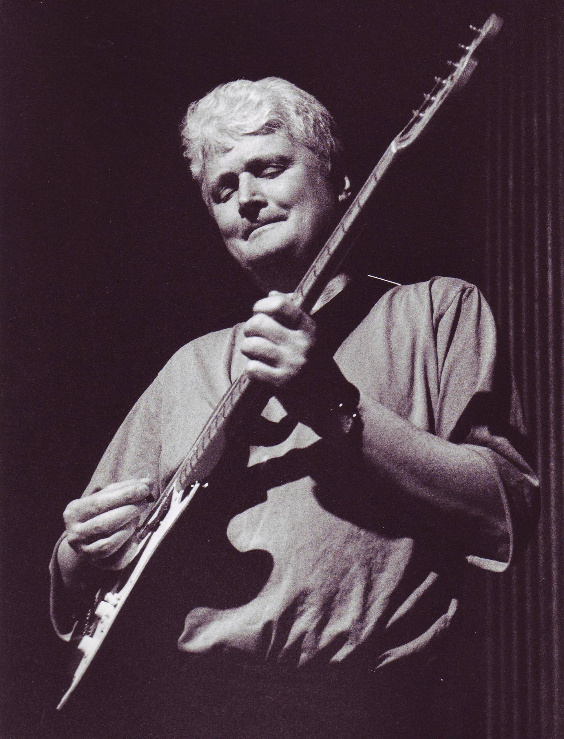 Dave Cliff photo